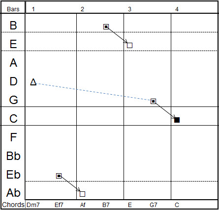 A SeeChord chart of a "Coltrane substitution"